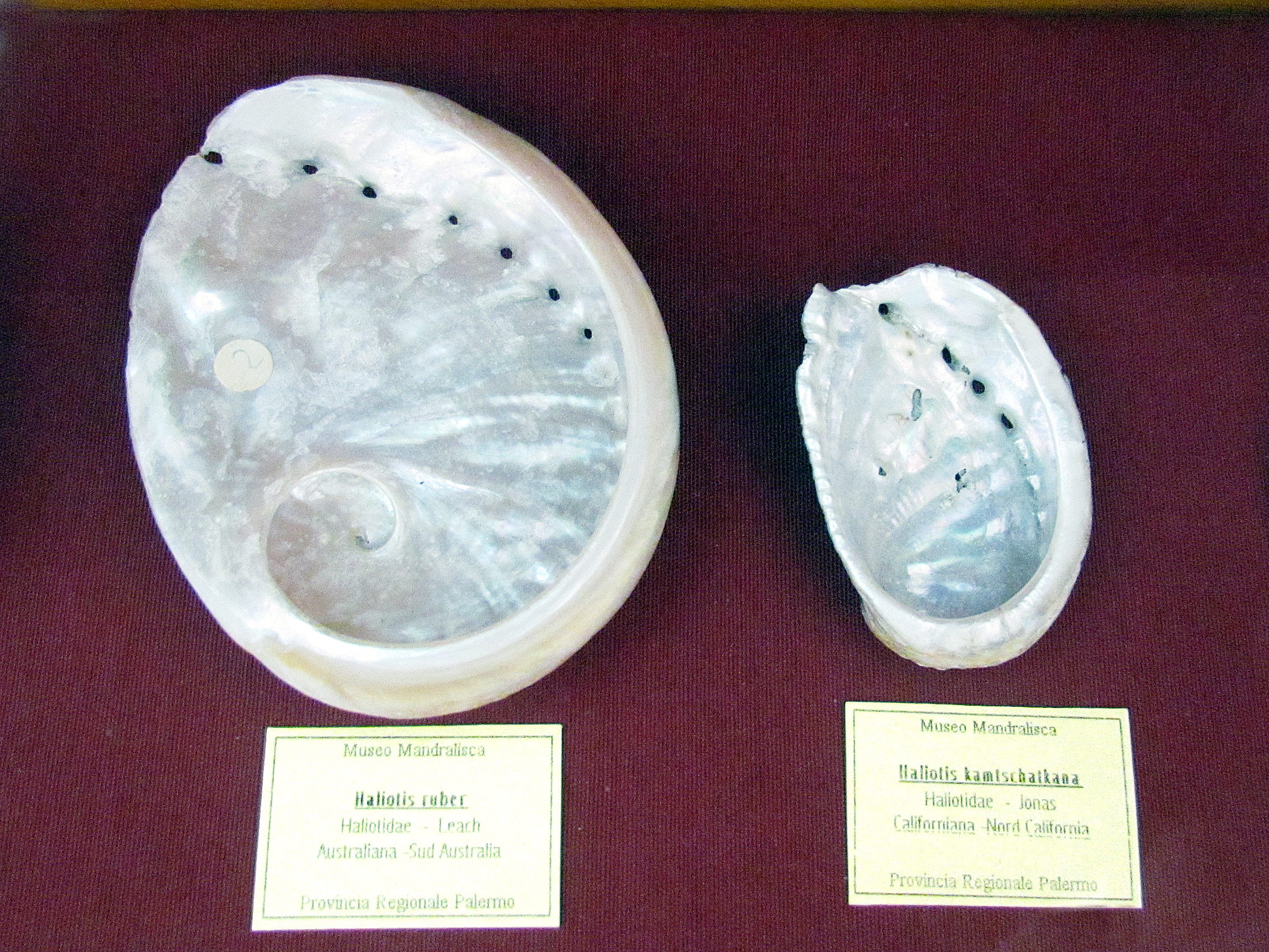 See shells.